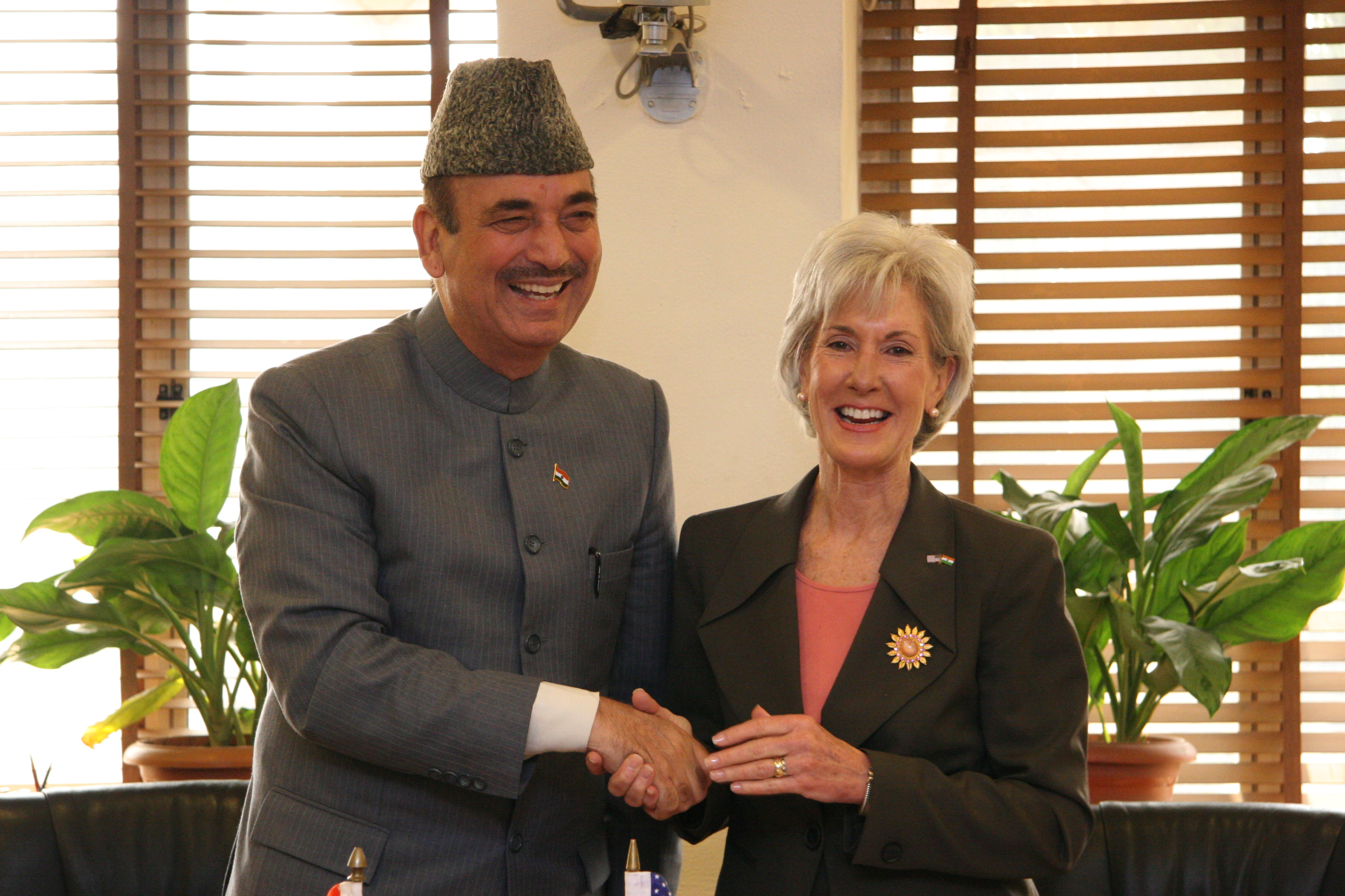 Kathleen Sebelius, Secretary of the U.S. Department of Health and Human Services, met with Ghulam Nabi Azad, Minister of Health and Family Welfare, during her six day visit to India. U.S. and India officials recognized India’s tremendous progress toward elimination of polio, and agreed to strengthen collaboration in health systems development, biomedical research and food and drug safety.” U.S. Embassy photo by New Delhi photographer